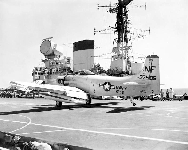 A U.S. Navy Douglas AD-6 Skyraider (BuNo 137585) from Attack Squadron VA-52 "Knight Riders" landing aboard the Royal Navy aircraft carrier HMS Victorious (R38) during exercise "Crosstie" in the South China Sea, November 1961. VA-52 was assigned to Carrier Air Group 5 (CVG-5) aboard the USS Ticonderoga (CVA-14) for a deployment to the Western Pacific from 10 May 1961 to 15 January 1962.